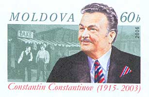 Stamp of Moldova